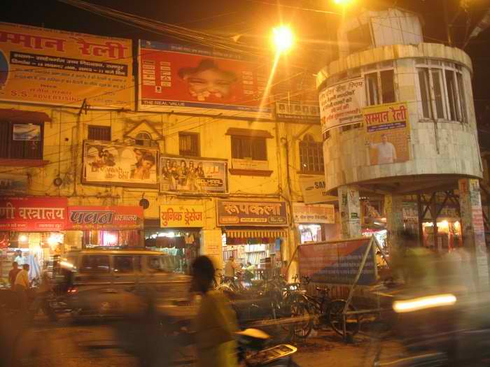 Muzaffarpur, Bihar